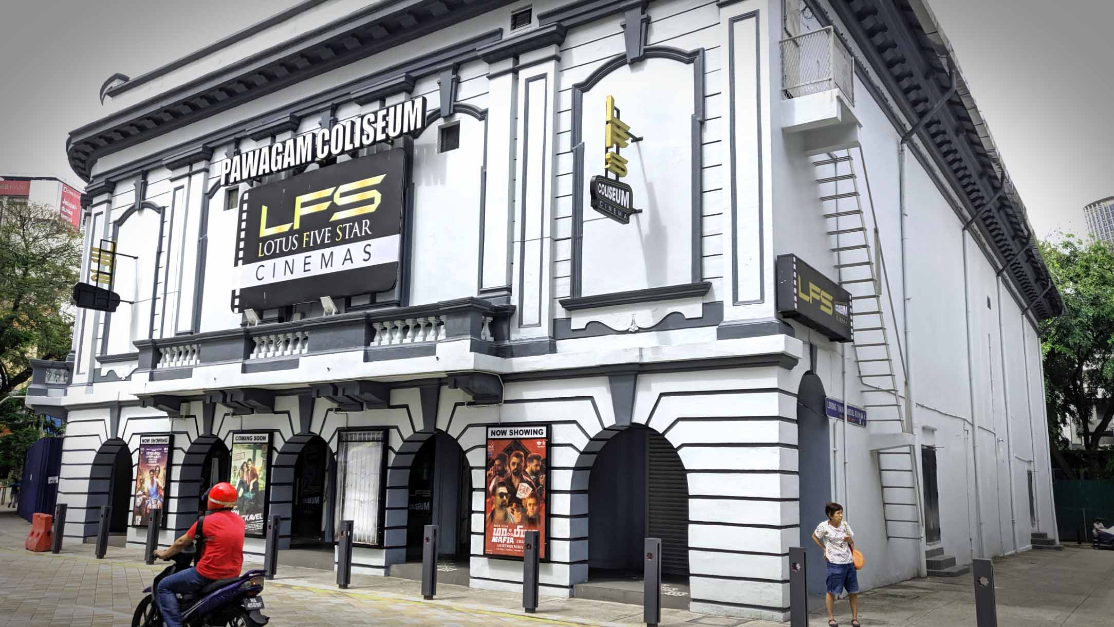 Lotus Five Star